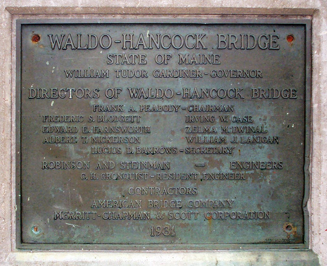 Dedication plaque of the Waldo-Hancock Bridge, Bucksport 1931